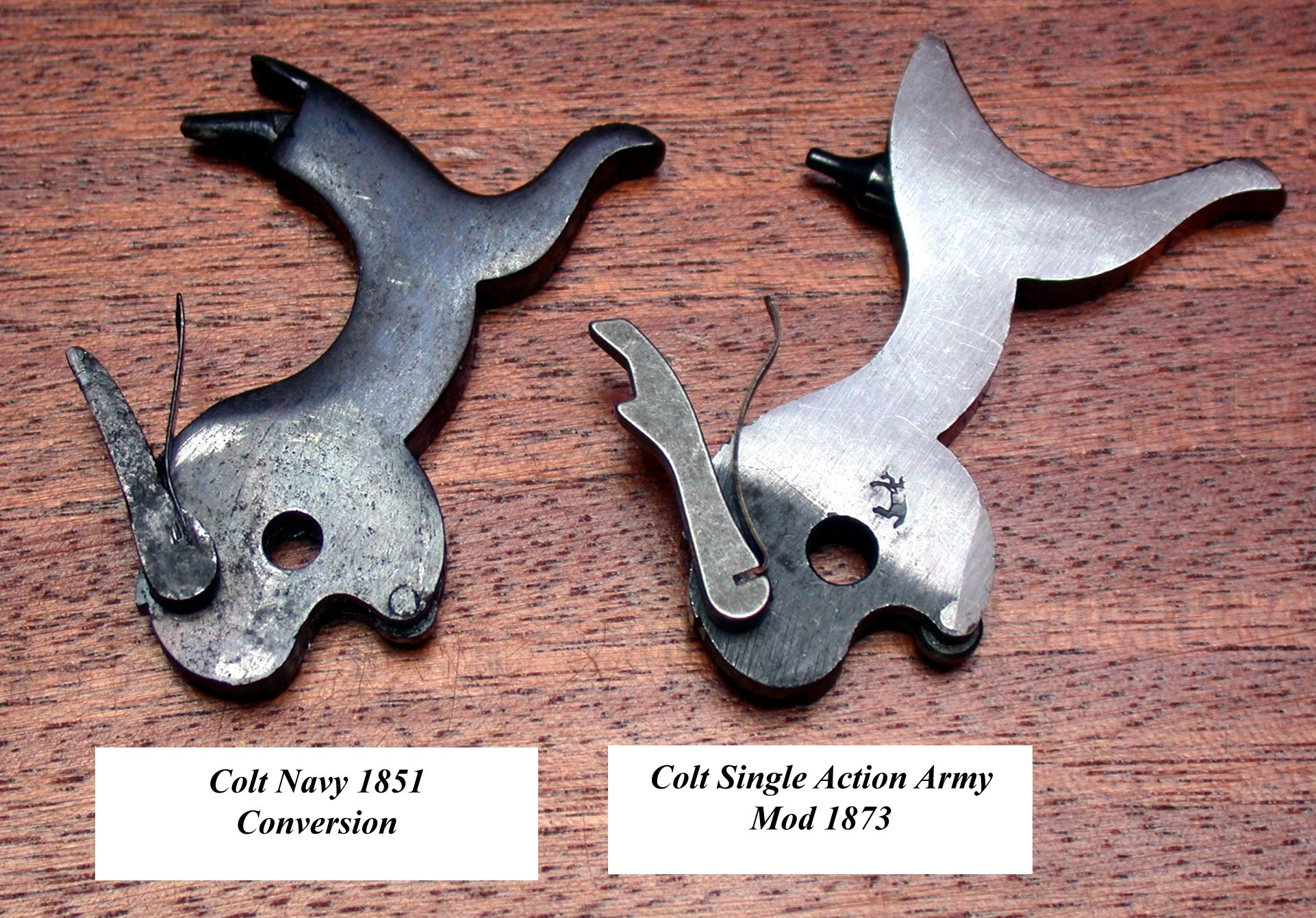 Colt Navy 51 Hand, Colt SAA Hand with 2 Fingers